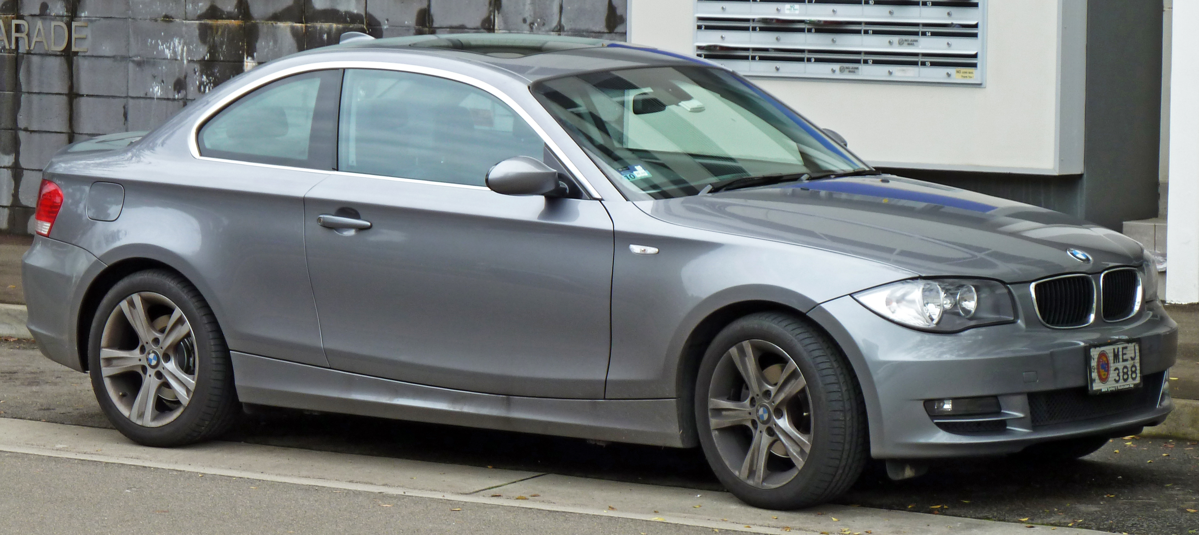 2008–2010 BMW 125i (E82) coupe. Photographed in Zetland, New South Wales, Australia.